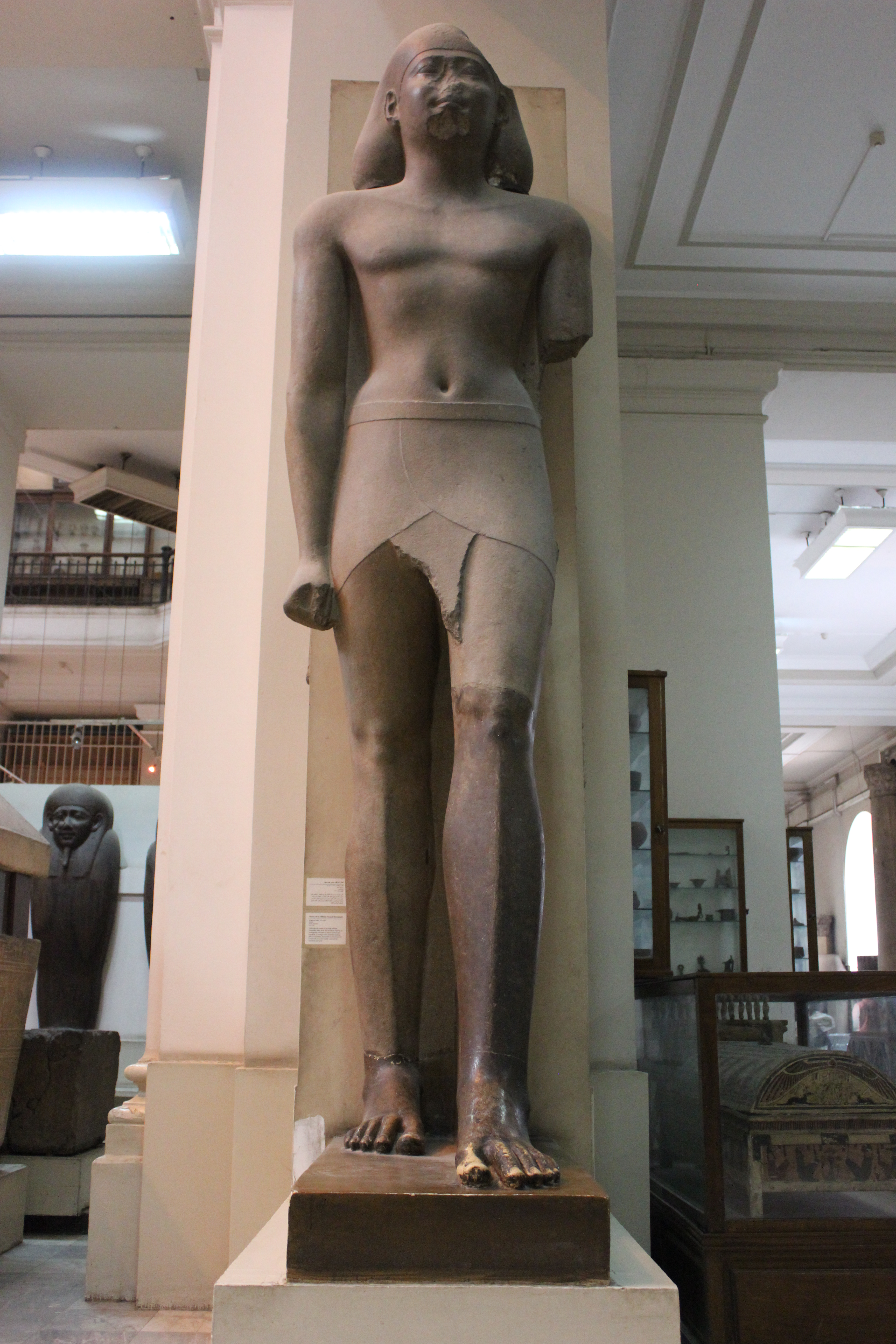 Statue of an official named Horemheb. Ptolemaic Period, from Naukratis. In Cairo, Egyptian Museum, Ground floor, gallery 49, CG 1230.